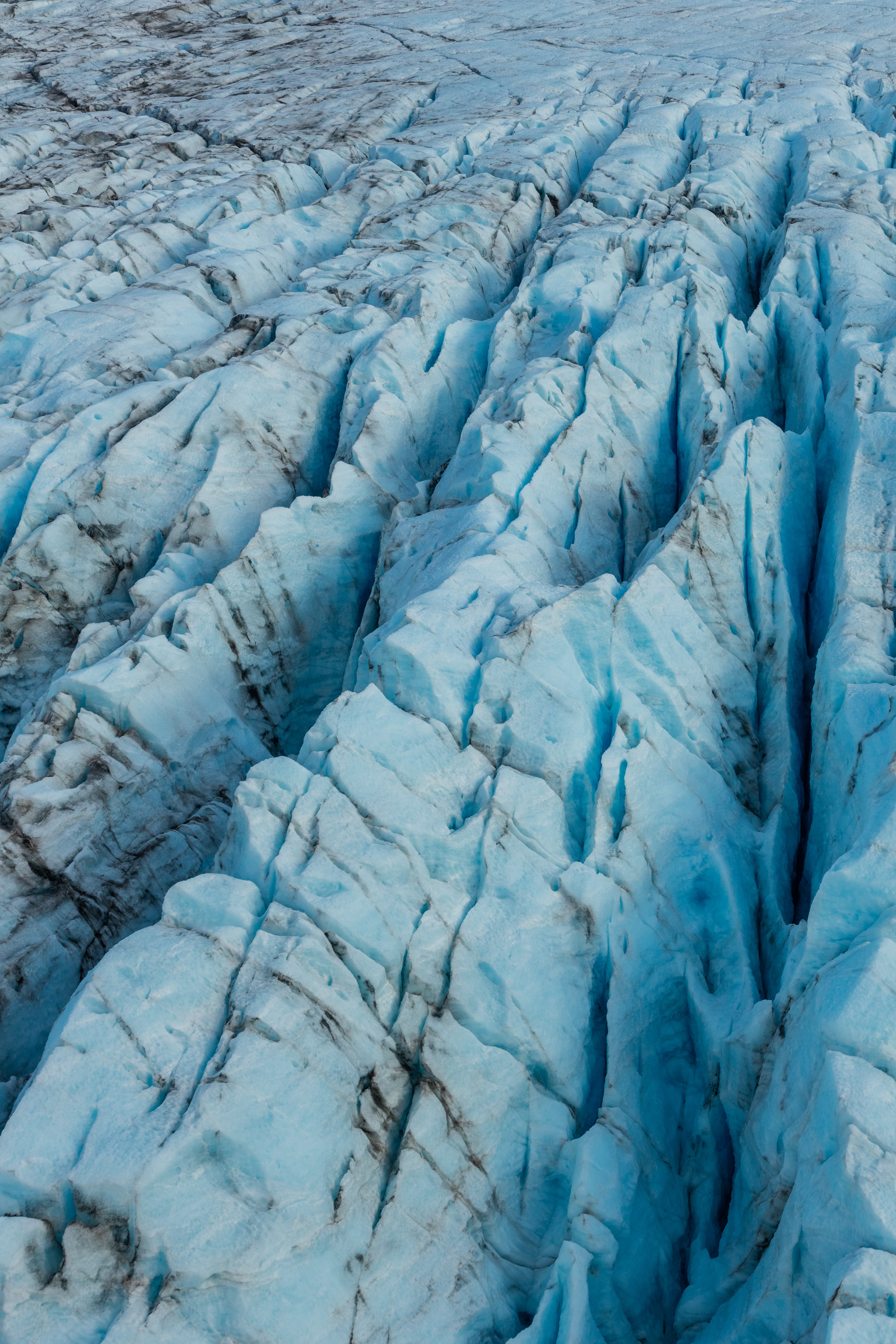 Chugach State Park, Alaska, United States